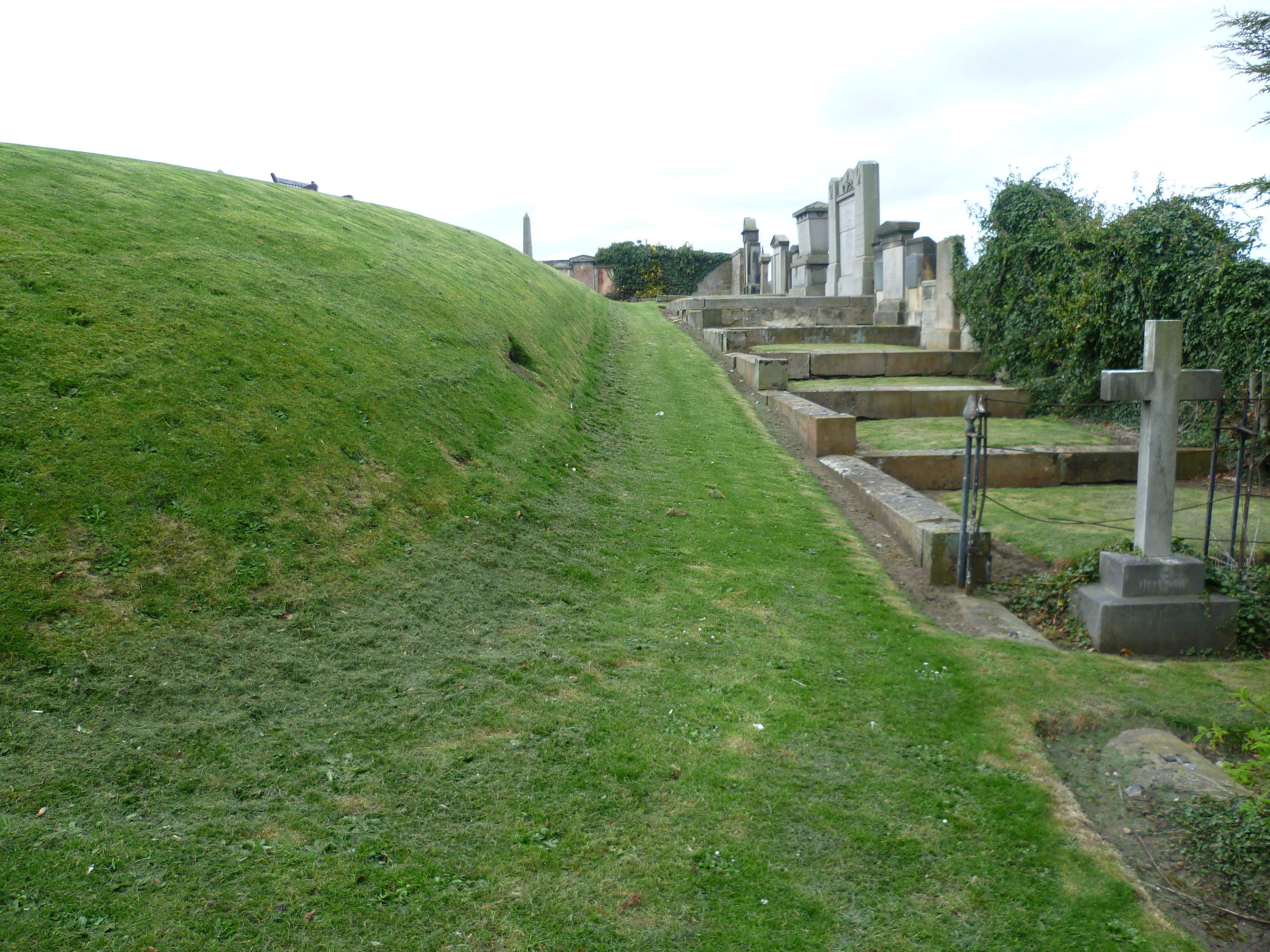 An earthwork thrown up by the English forces during the Battle of Pinkie Cleugh. An information board at the entrance to the church explains that, "The strategic position of this spot which attracted the Votadini tribe and the Romans also attracted the Duke of Somerset who formed a mound for his cannon in 1547. The former church was witness to the defeat of the 30,000 Scots army at the hands of the English when 10,000 Scots died. In 1650 Cromwell was similarly drawn to this site when he stabled his horses in the church. He placed cannon on Somerset's mound and built another behind the church which later disappeared to make room for burial plots."